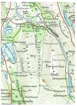 Þegjandadalur